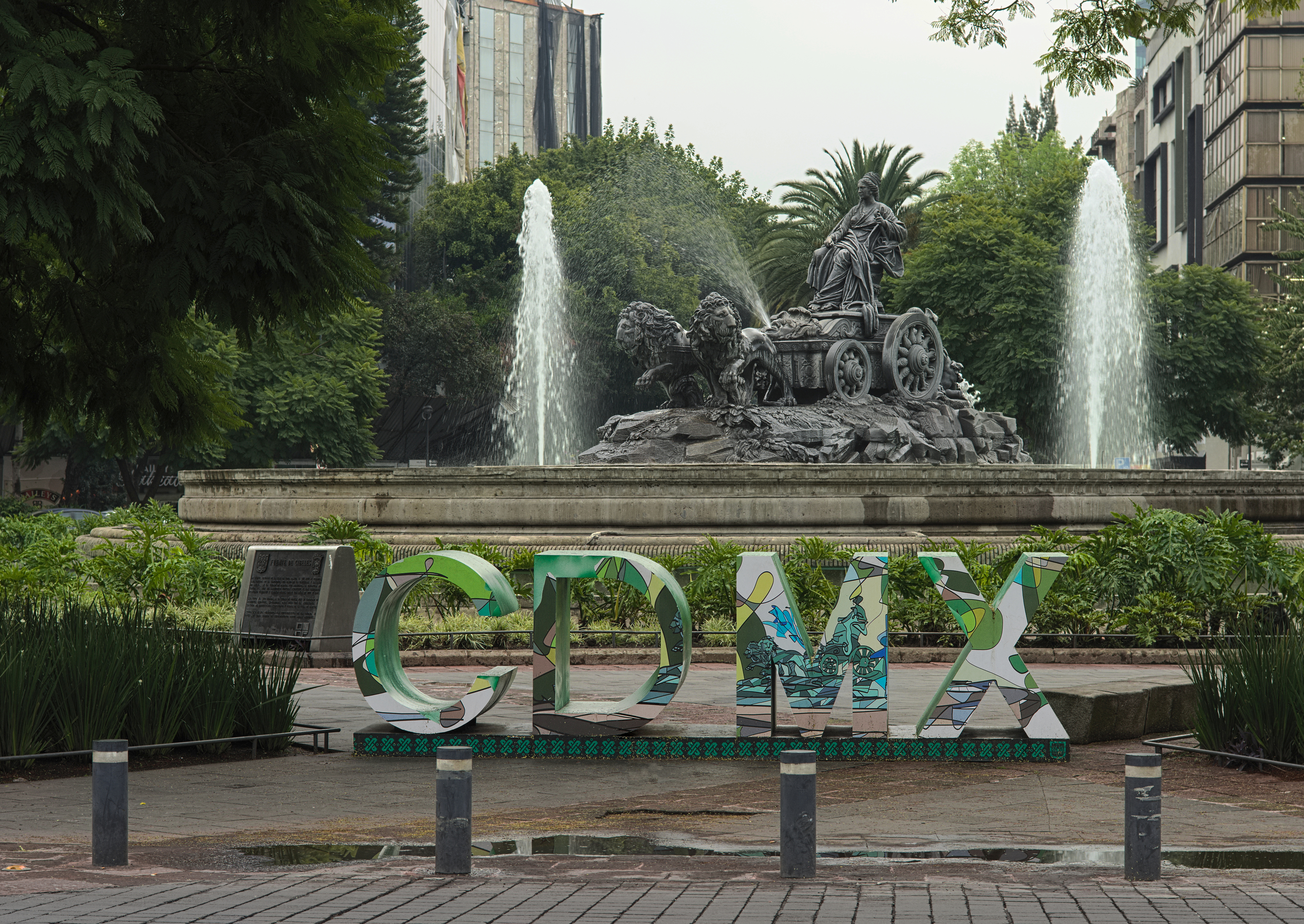 Cibeles fountain, Mexico City